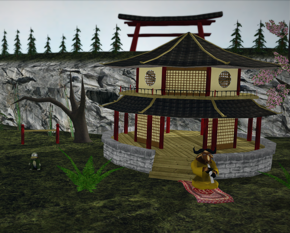 These cutscenes will probably be redone within the next couple of versions.